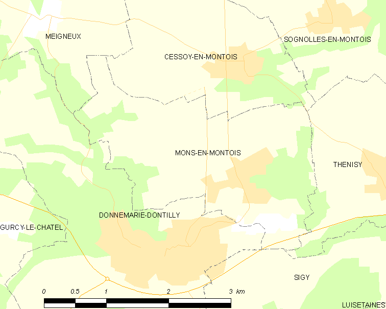 Map of French municipality Mons-en-Montois